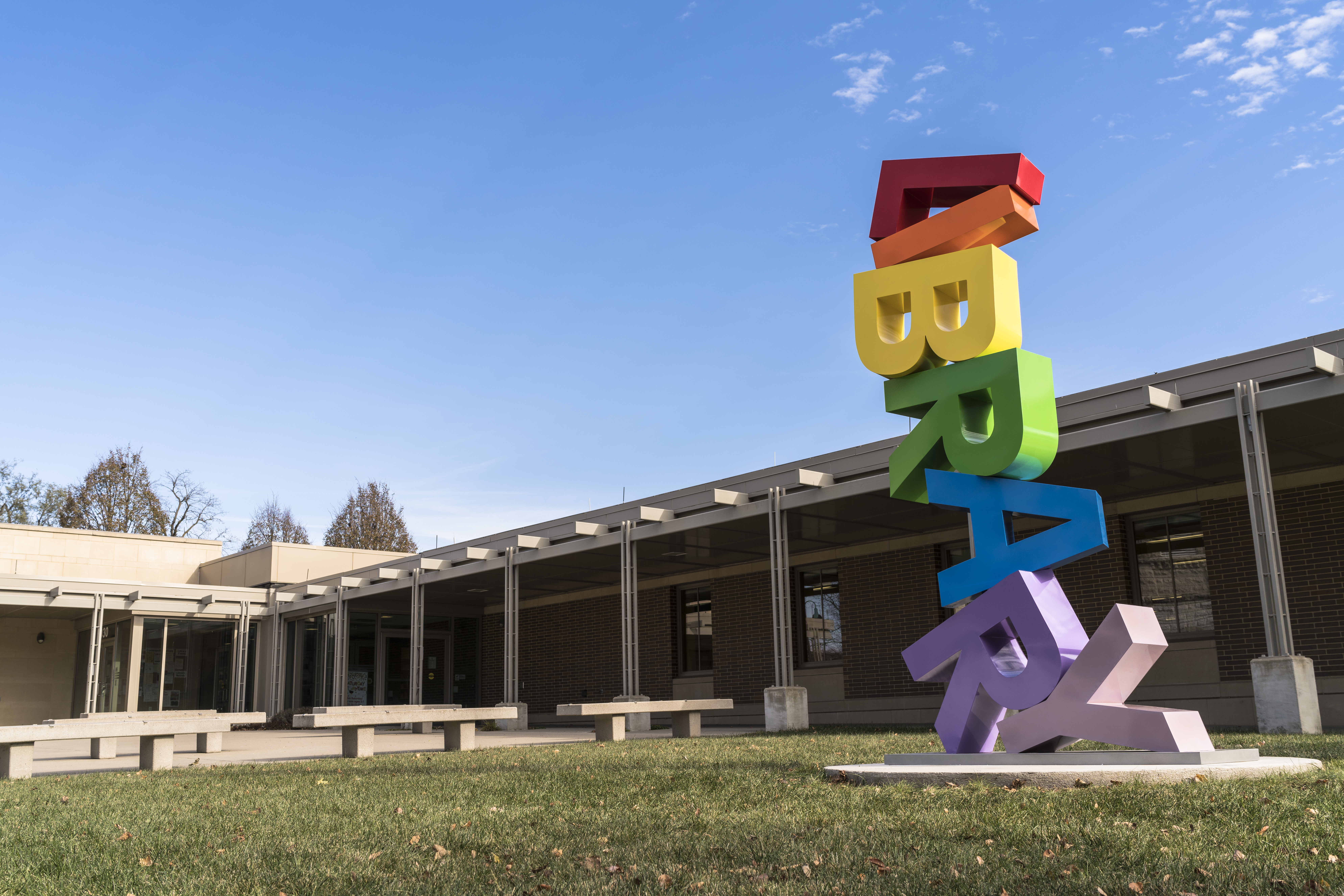 The entrance to the library features a colorful scuplture that was added in the fall of 2017.